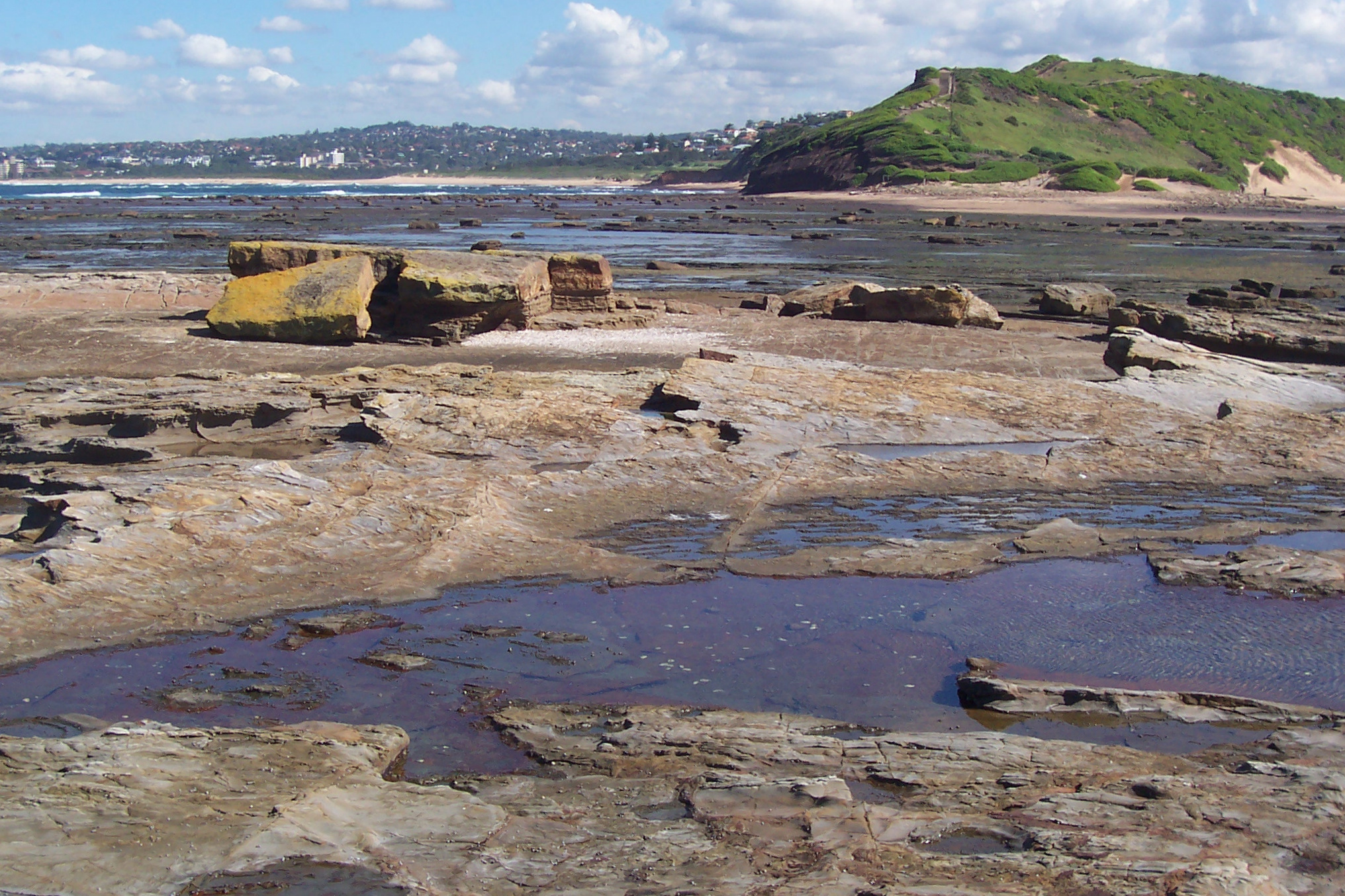 Long Reef - end point of the reef. Distant headland is comprised of Bald Hill Claystone